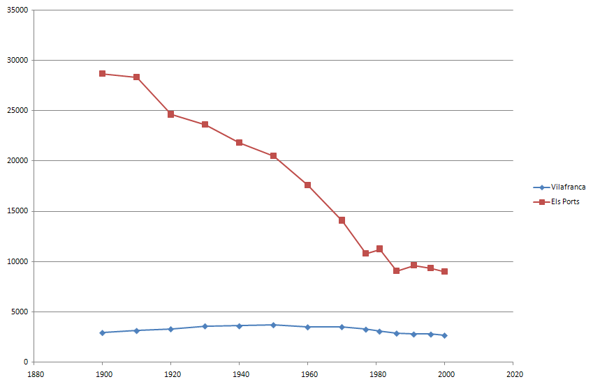 Vilafranca's population, Els Ports, Spain, (1900-2006). Own work from [1] data.